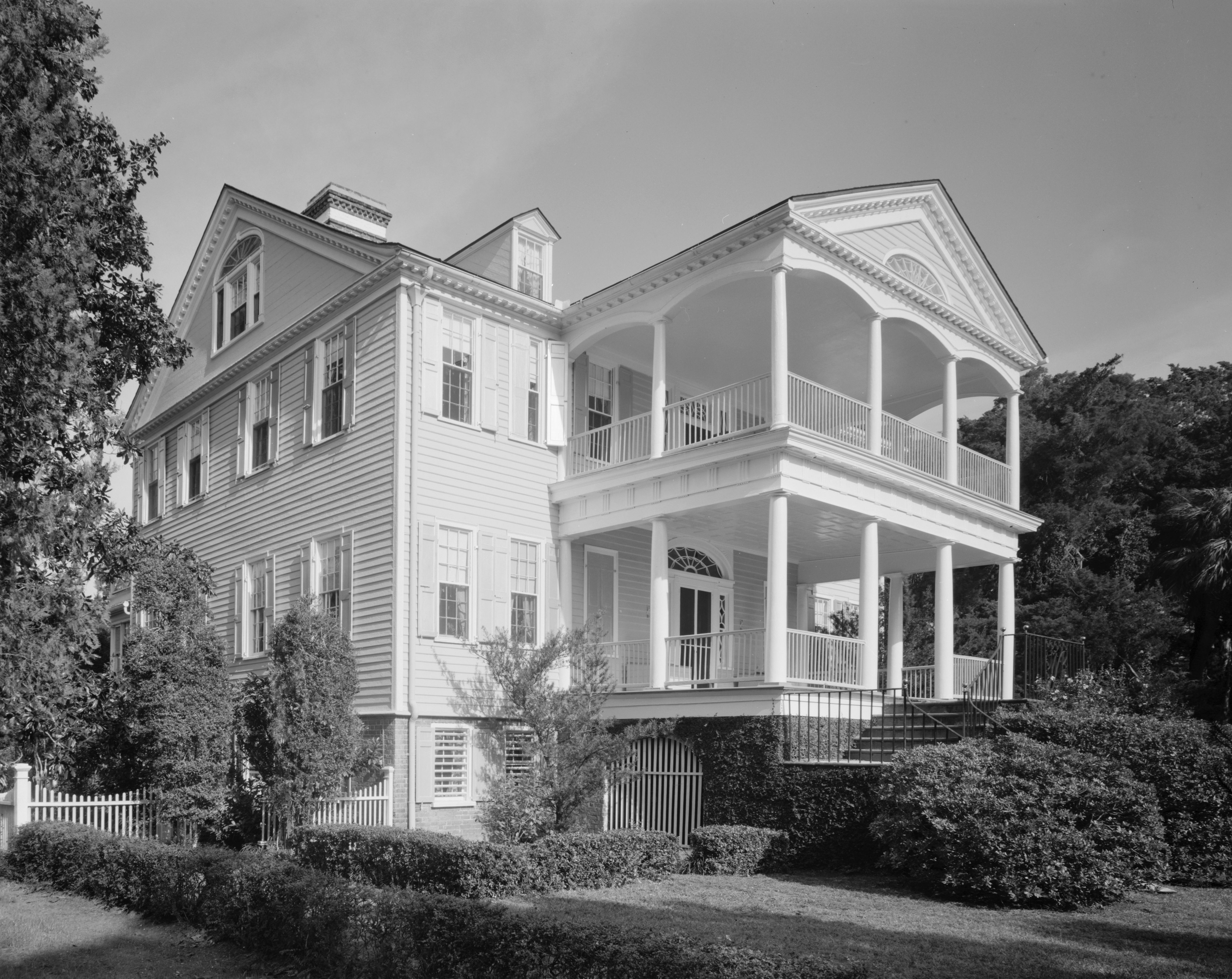 William Seabrook House, County Road 768, Edisto Island (Charleston County, South Carolina) (cropped)